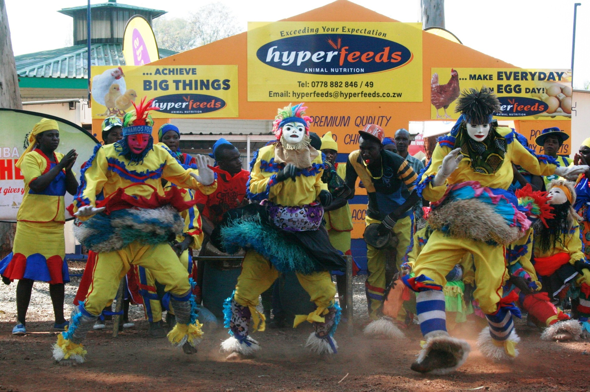 Nyau Dancers goes through their dance at the Harare Agricultural Show This is an image from Zimbabwe